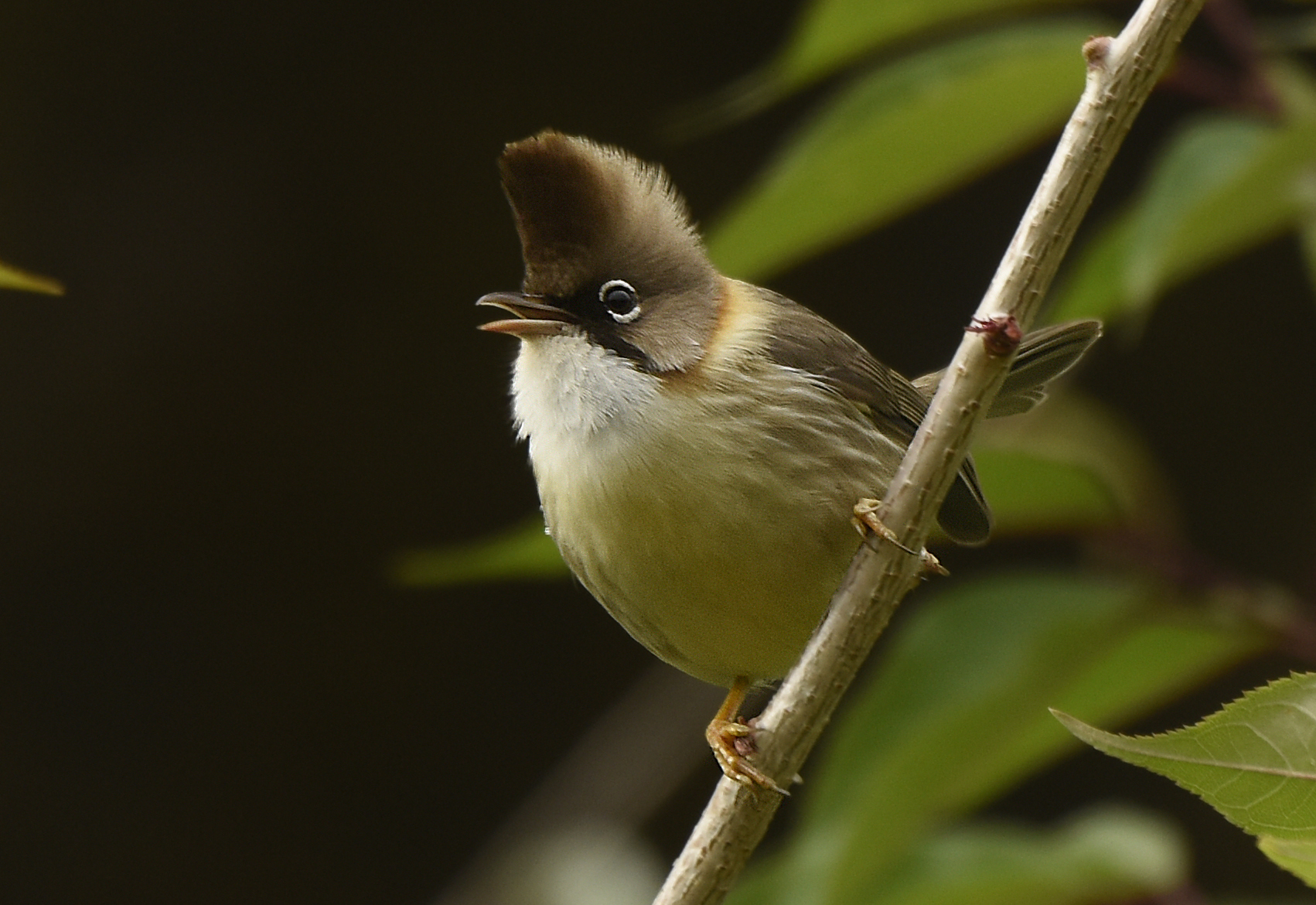 Mangoli, Nainital, Uttarakhand, India